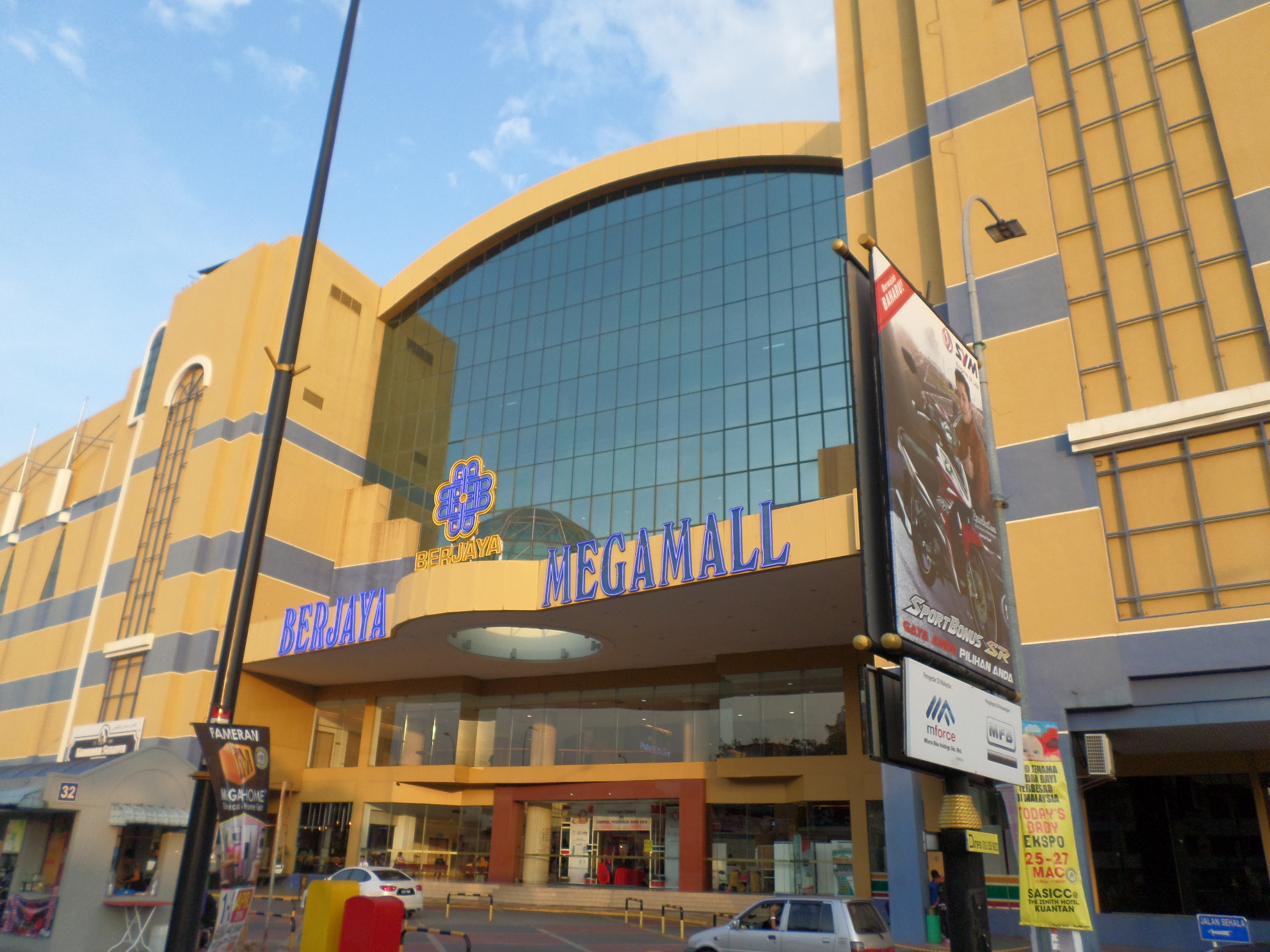 Berjaya Megamall, Kuala Kuantan, Kuantan, Pahang, MalaysiaBahasa Melayu: Berjaya Megamall, Kuala Kuantan, Kuantan, Pahang, Malaysia